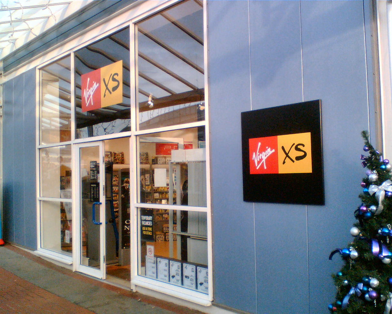 Virgin XS at Royal Quays Retail Park, North Tyneside, England